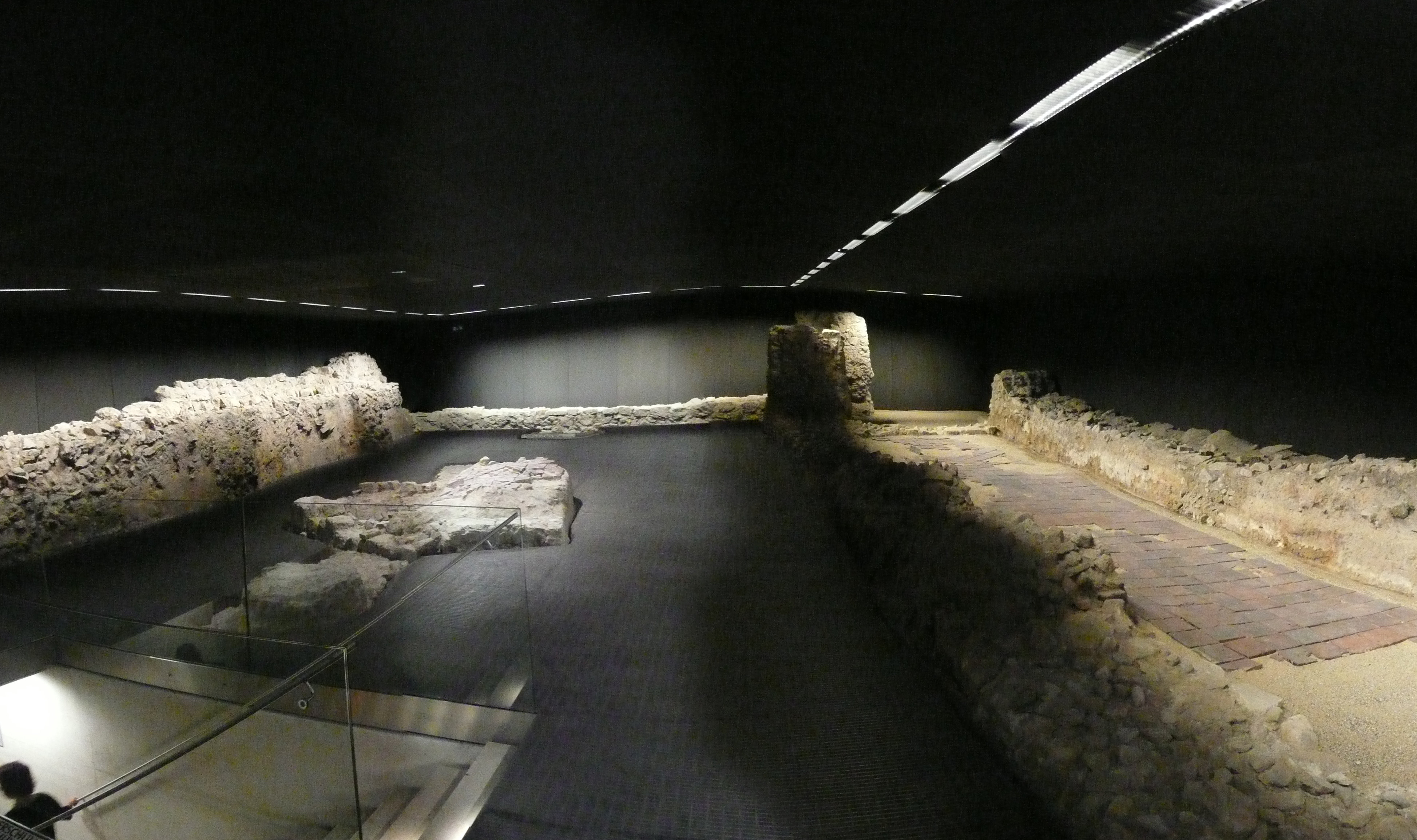 Remains of Vienna's oldest synagogue. The synagogue was the spritiual centre of Jewish scholarship which extended over the continent of Europea and enjoyed one of its heydays here in Vienna. The destruction of the synagogue in 1421, motivated by hatred and misconceptions, marked the end of Vienna's first Jewish community. This site now serves as a memorial to the victims of the Vienna Gesera.